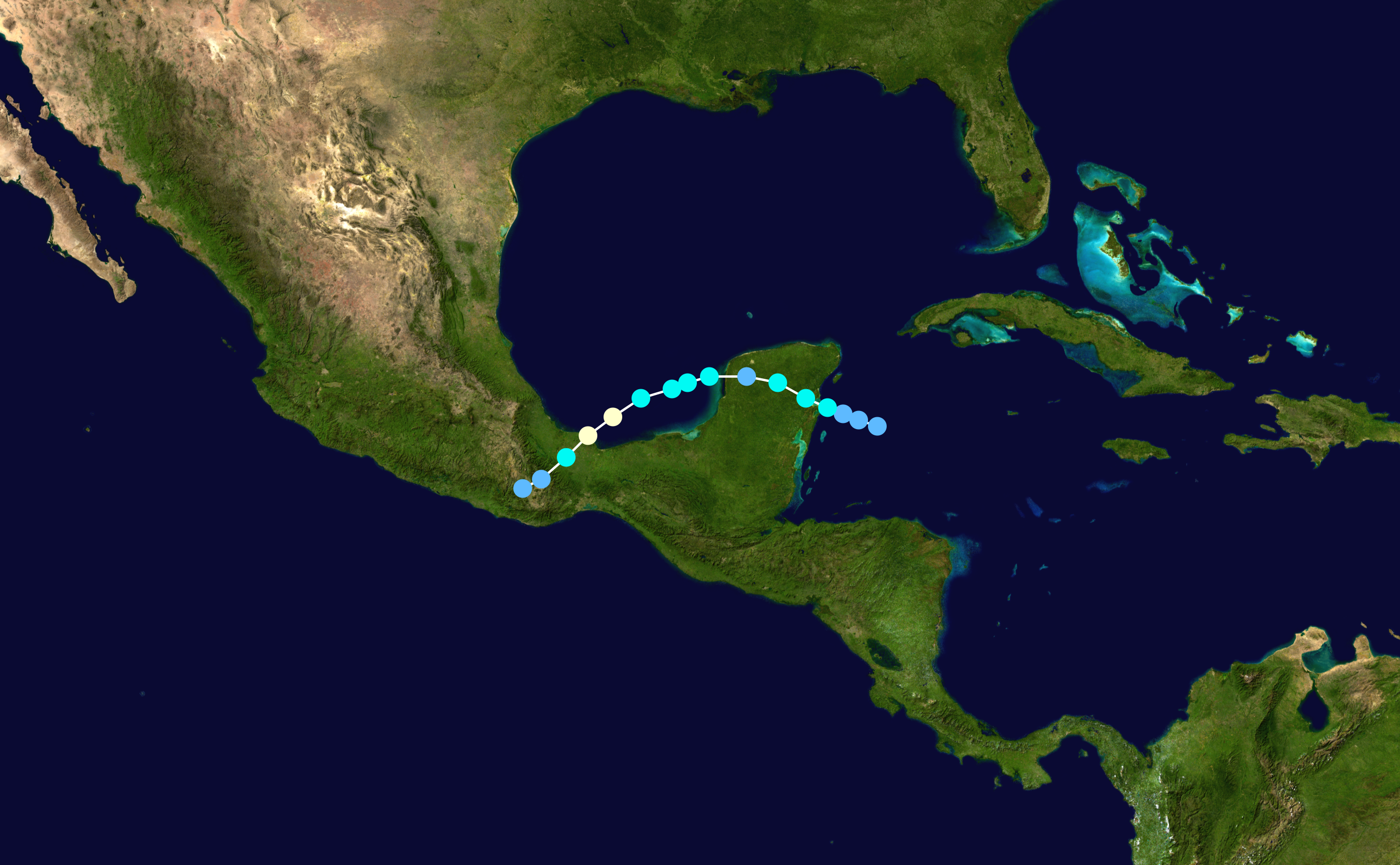 Track map of Hurricane Stan of the 2005 Atlantic hurricane season. The points show the location of the storm at 6-hour intervals. The colour represents the storm's maximum sustained wind speeds as classified in the Saffir–Simpson scale (see below), and the shape of the data points represent the nature of the storm, according to the legend below. Saffir–Simpson scale Tropical depression≤38 mph≤62 km/h Category 3111–129 mph178–208 km/h Tropical storm39–73 mph63–118 km/h Category 4130–156 mph209–251 km/h Category 174–95 mph119–153 km/h Category 5≥157 mph≥252 km/h Category 296–110 mph154–177 km/h Unknown Storm type Tropical cyclone Subtropical cyclone Extratropical cyclone / Remnant low / Tropical disturbance / Monsoon depression